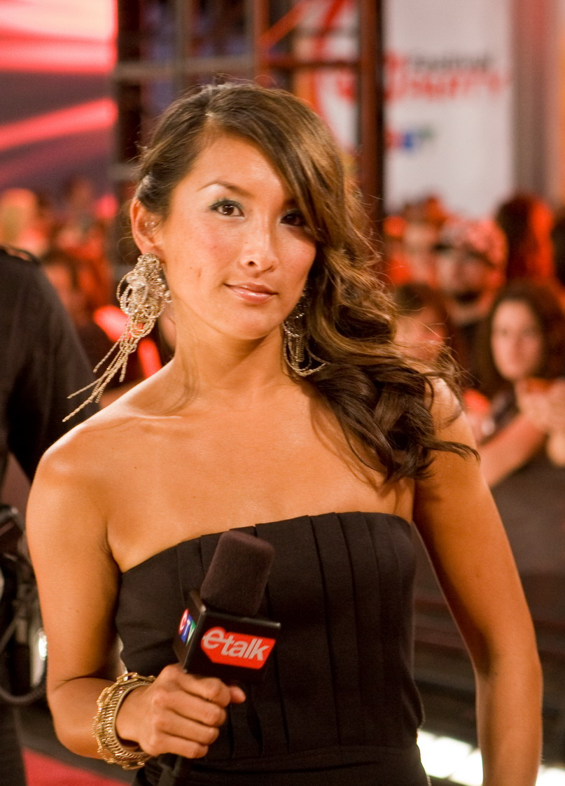 eTalk television program co-host Tanya Kim, at the eTalk Festival Party, during the Toronto International Film Festival.